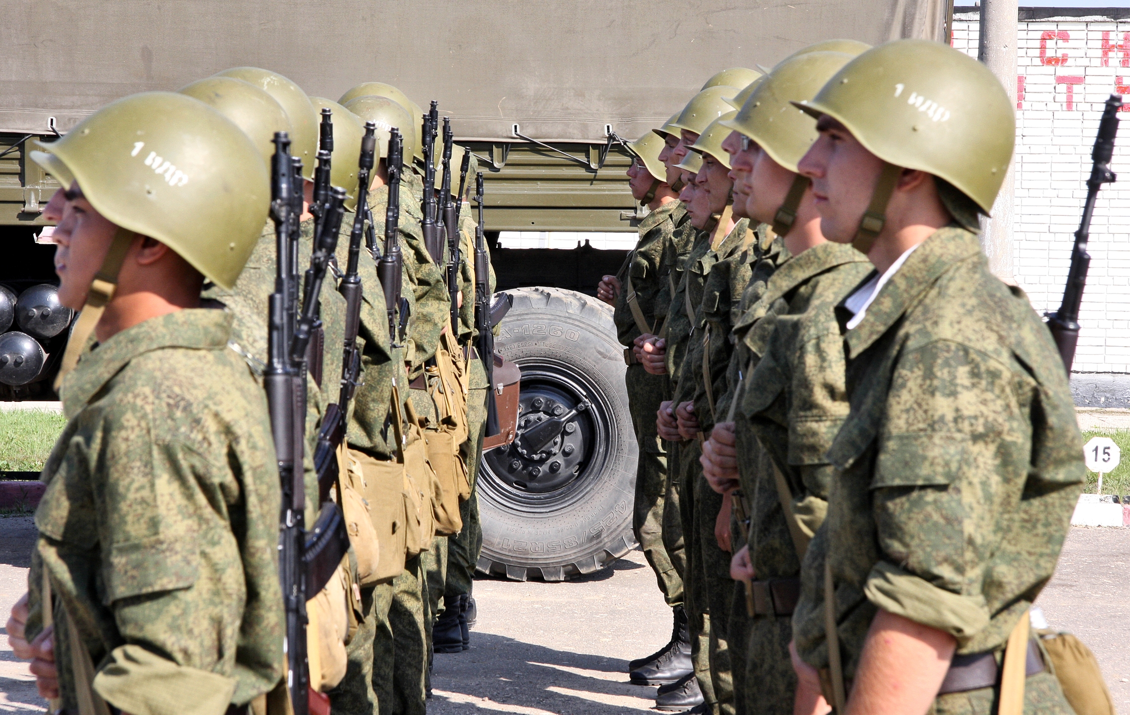 The 45th Separate Engineer-Camouflage Regiment of Russia.